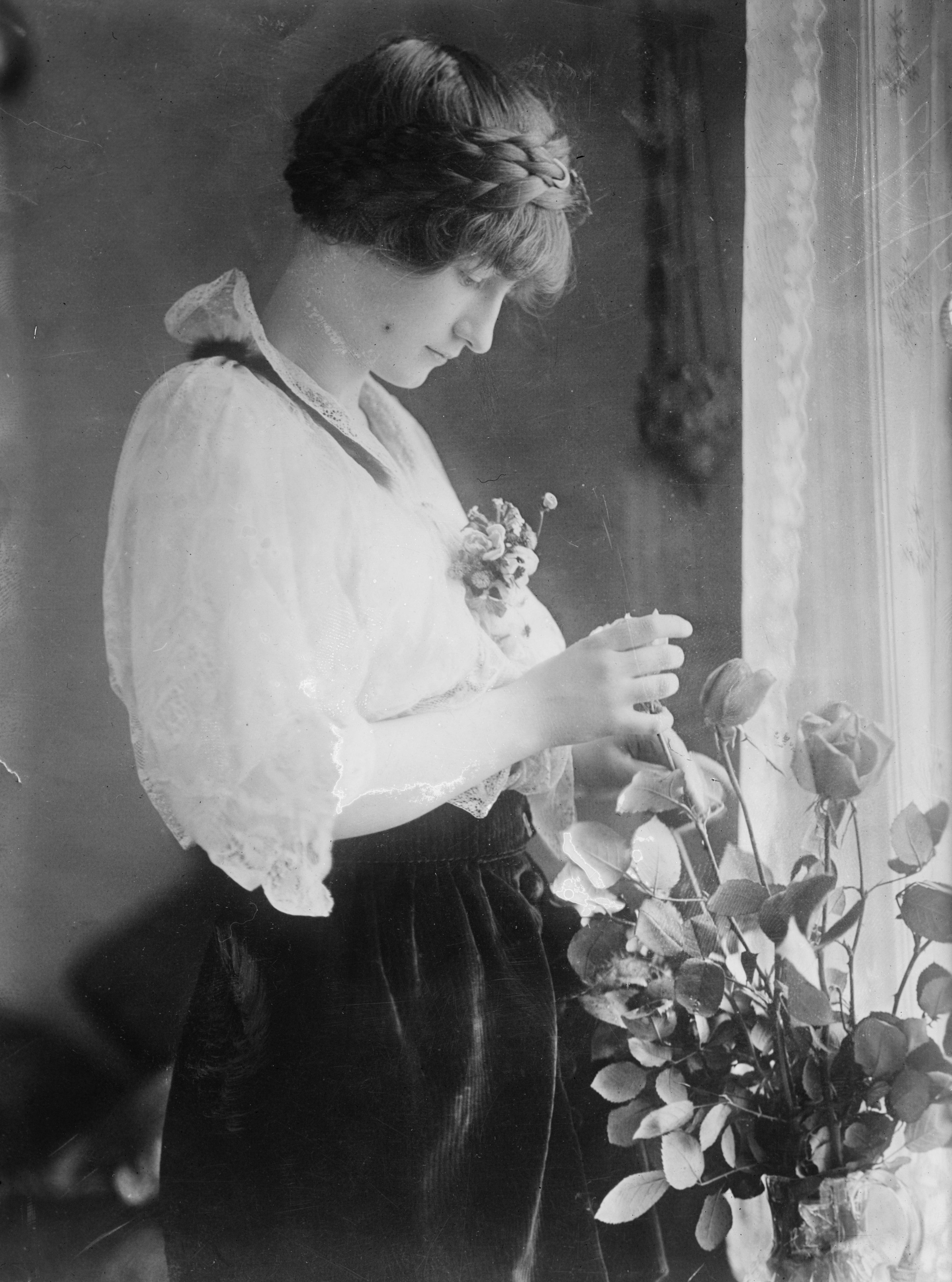 Title: Elizabeth Harrison) Mrs. J.B. Walker Jr Abstract/medium: 1 negative : glass ; 5 x 7 in. or smaller.